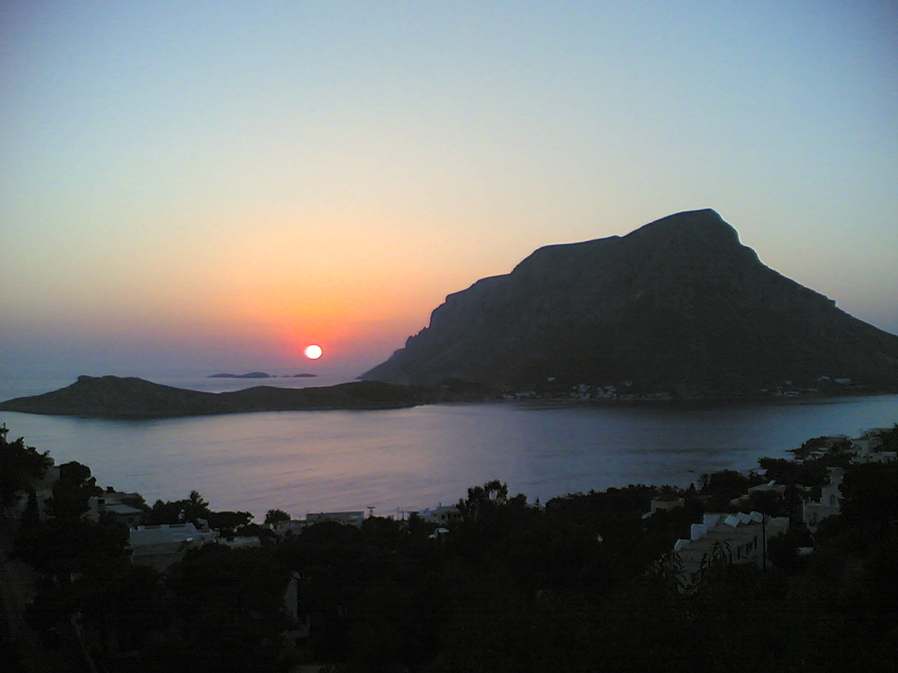 Telendos island, Kalymnos, Dodecanese, Greece